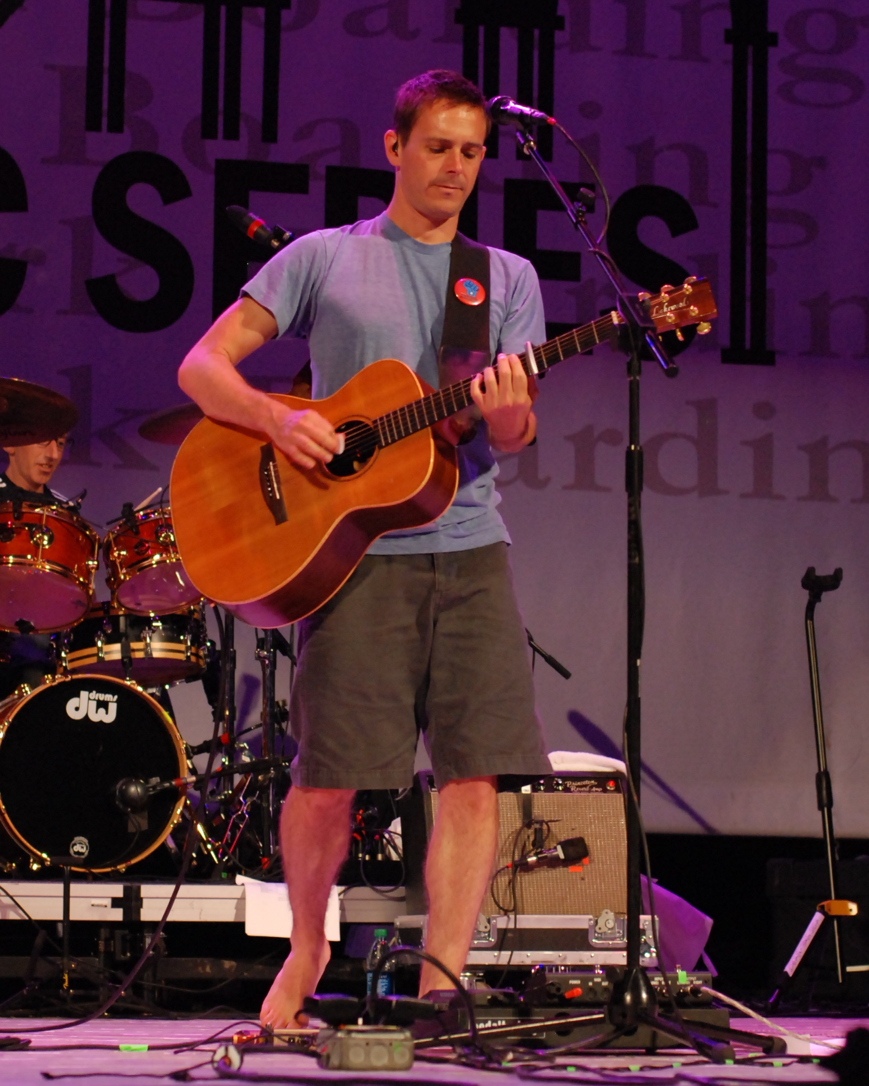 Glen Phillips performing with Toad the Wet Sprocket at the Lowell Summer Music Series